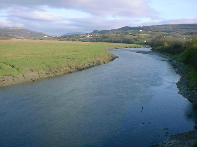 The River Neath near Neath Castle looking towards Tonna. The River Neath (or Afon Nedd) at the town of Neath (or Castell Nedd) looking north east up the Neath Valley towards Tonna (or Tonnau)